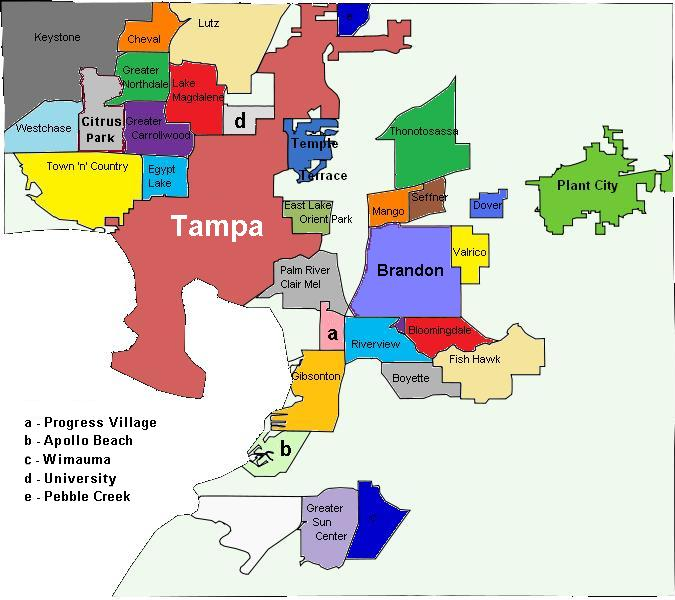 A map of the division of Hillsborough County, FL